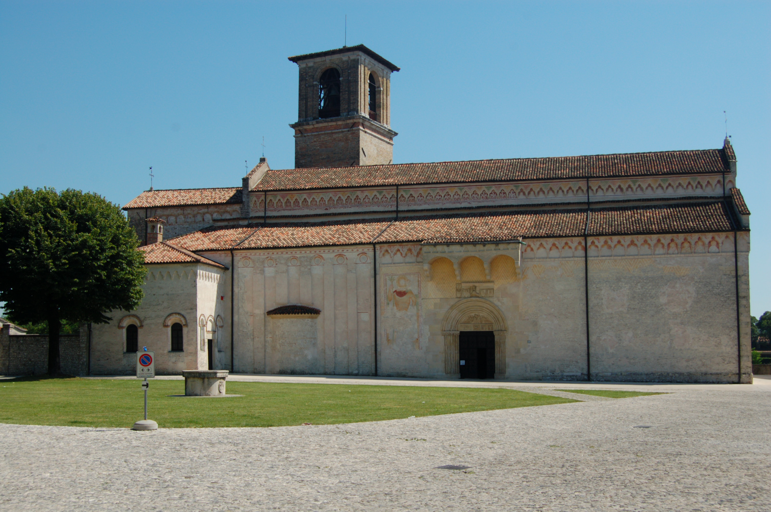 Duomo di Spilimbergo in Spilimbergo, Italy.